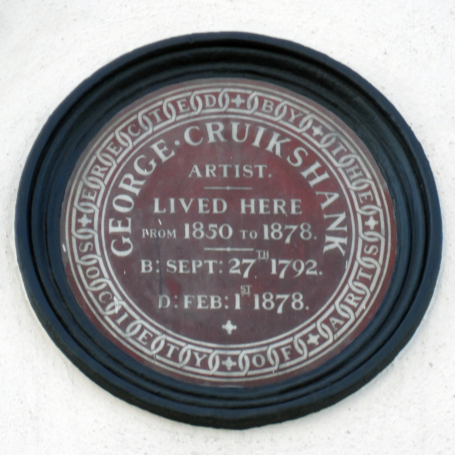 Brown plaque erected in 1885 by (Royal) Society of Arts at 293 Hampstead Road, Camden Town, London NW1 3EA, London Borough of Camden